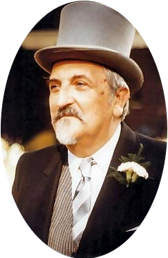 Václav Jaroslav Karel Pinkava alias Jan Křesadlo, as best man in London, 1987.